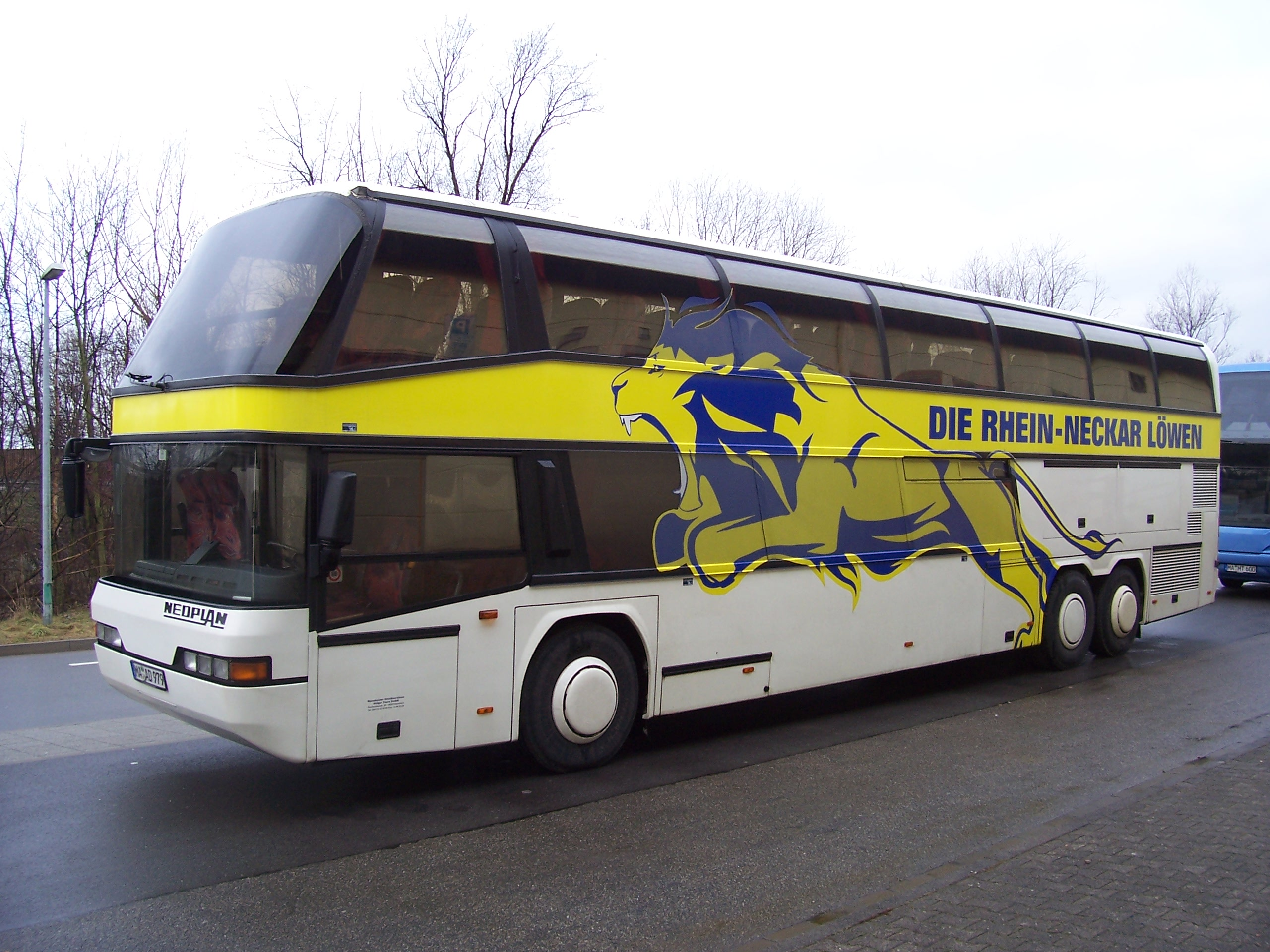 A Neoplan Skyliner double-decker bus in Viernheim, Germany My own photo